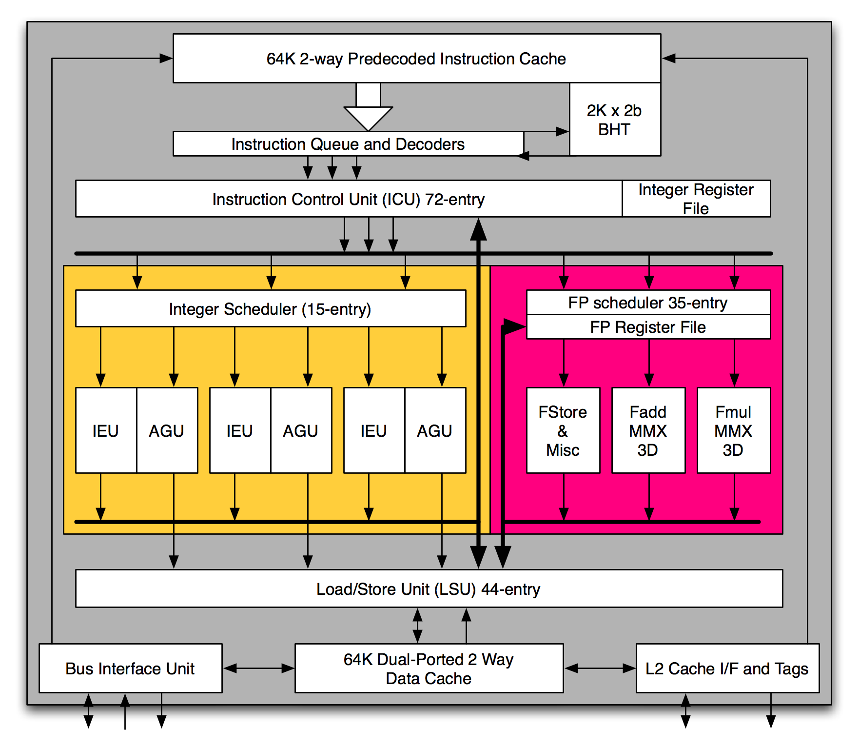 AMD Athlon